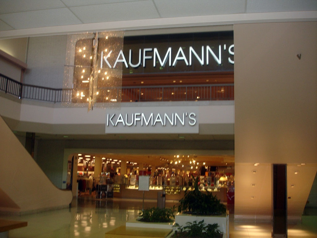 Image of the Kaufmann's façade at Rolling Acres mall. Photo taken by me.